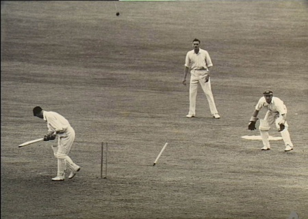 Keith Miller bowls Len Hutton in the 3rd Victory Test